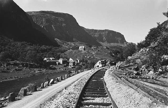 Flåm Line at Melhus in Aurland, Norway